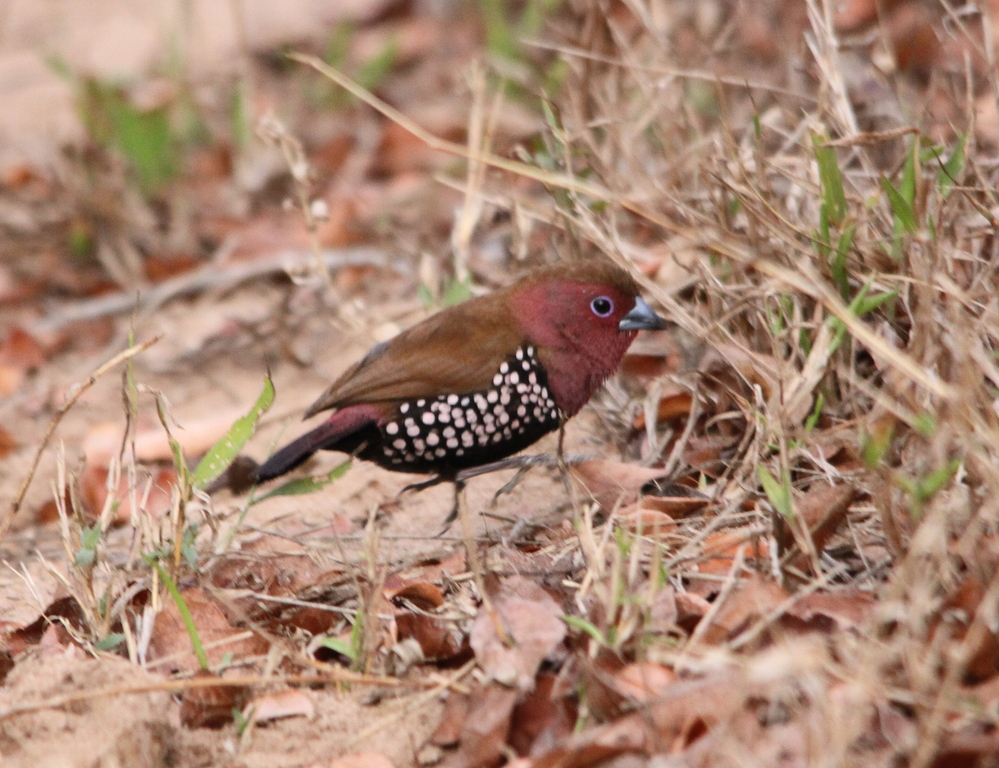 Pink-throated Twinspot, Hypargos margaritatus